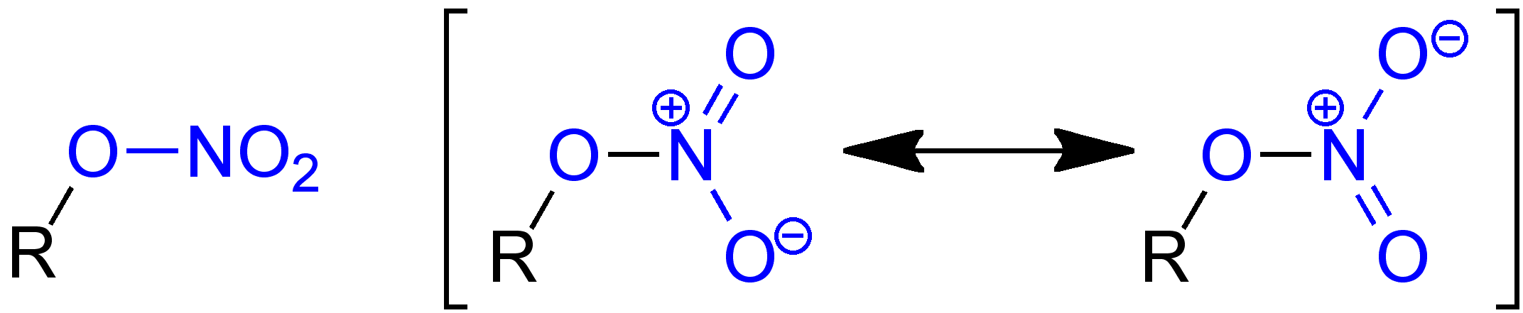 Organic_Nitrates_General_Formulae